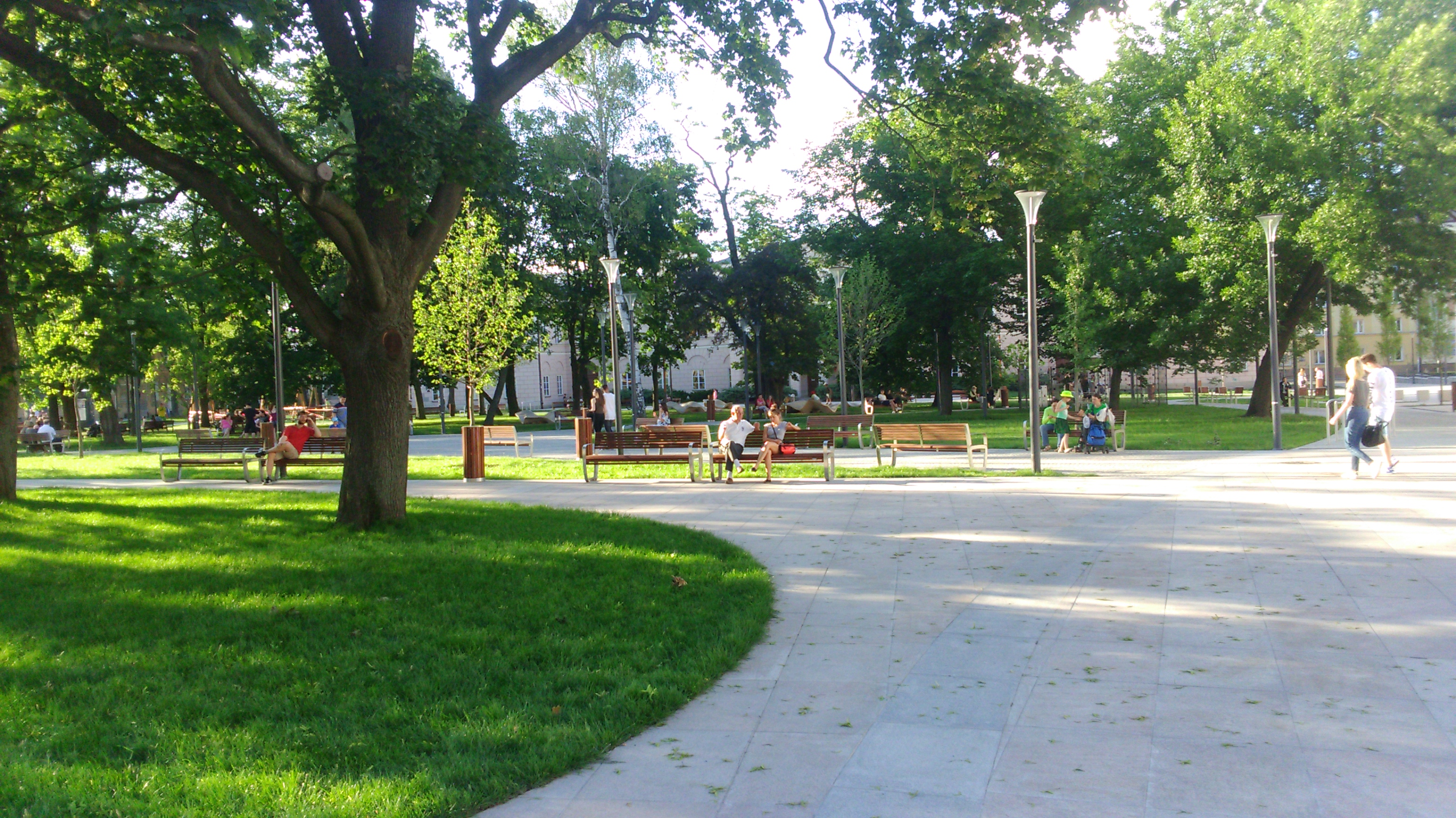 Plac Litewski